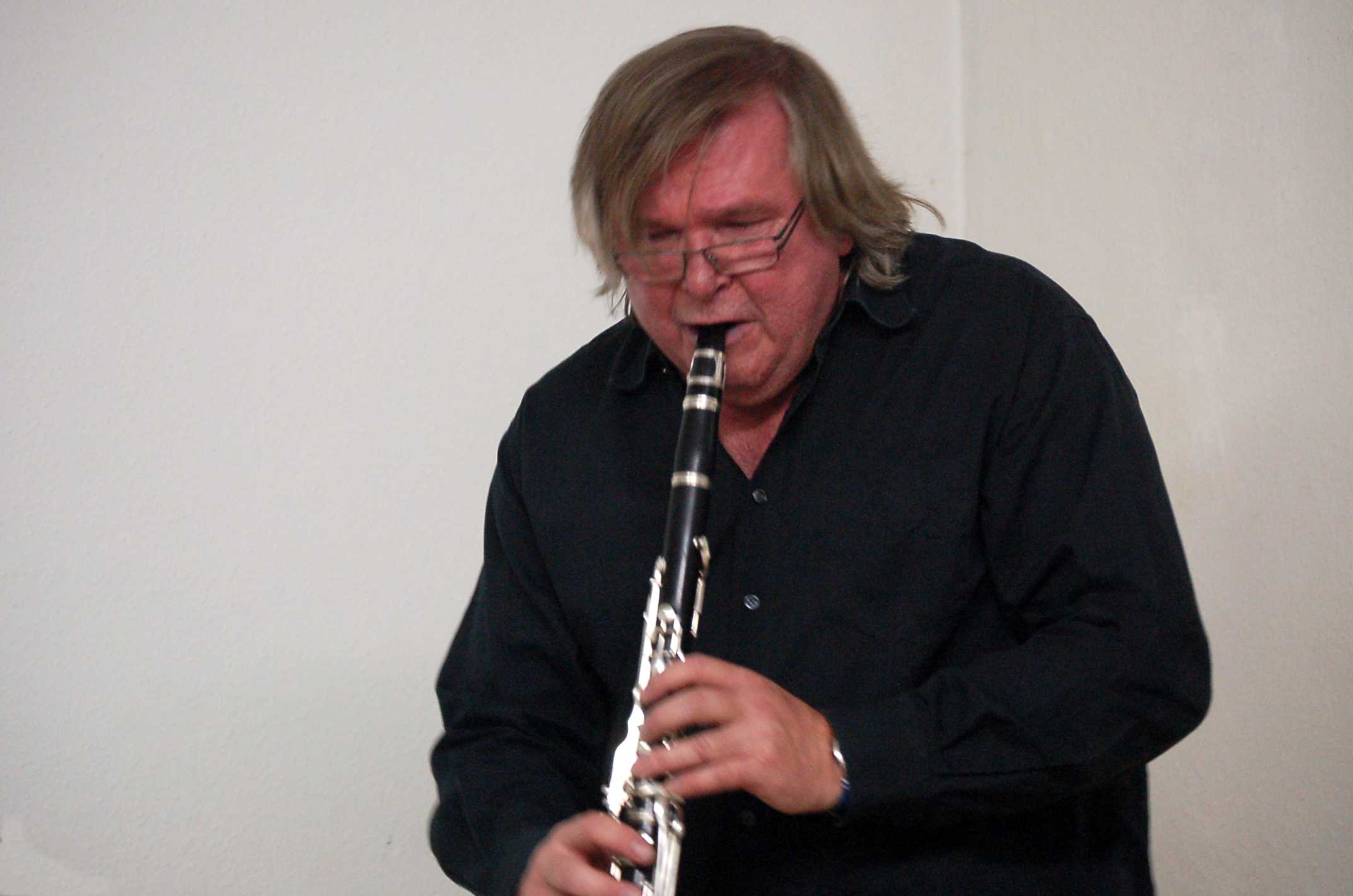 Theo Jörgensmann at "Kulturknastfenster" in Brüel, Germany 2009